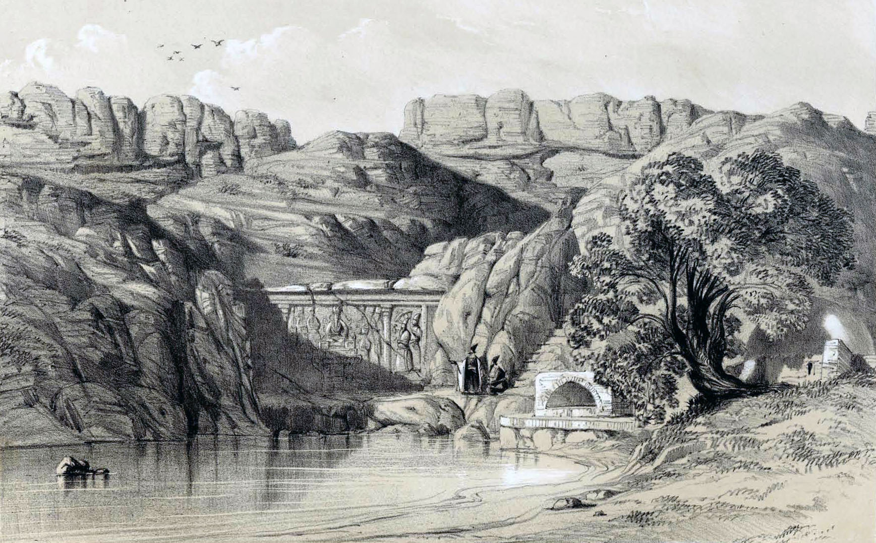 Cheshmeh Ali , Rhey